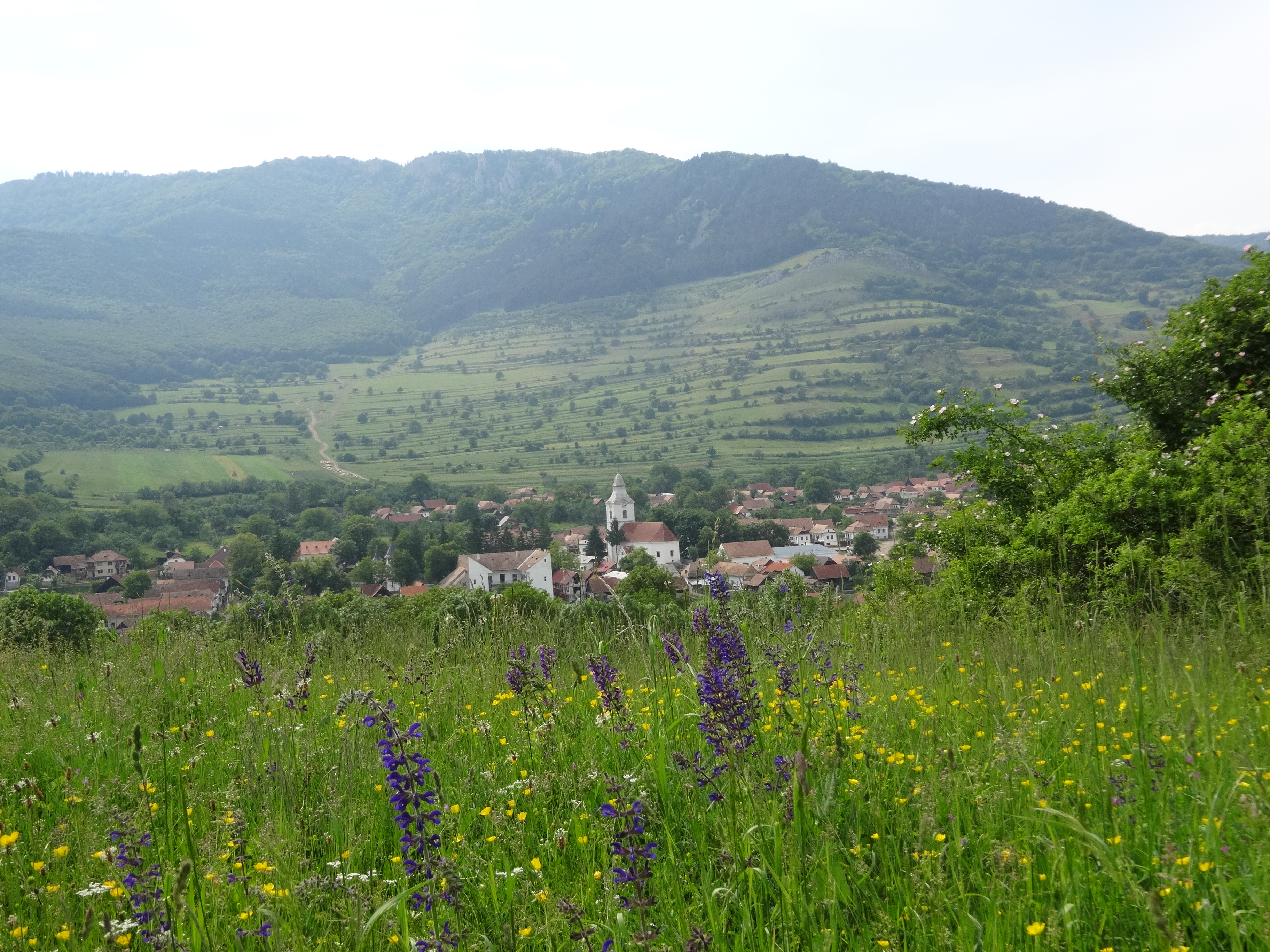 Rimetea view